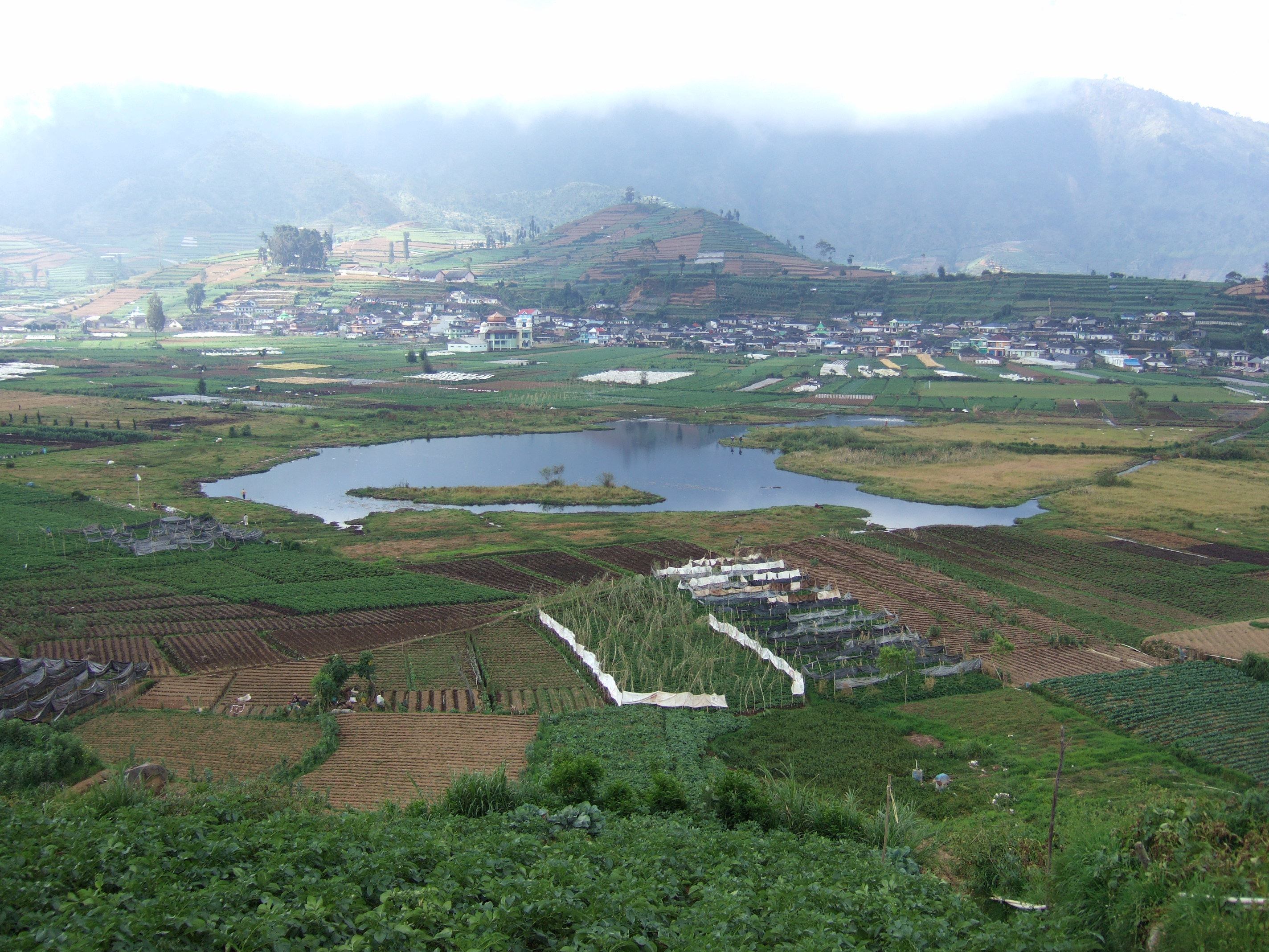 Lake Balekambang, Dieng Plateau, Central Java, Indonesia